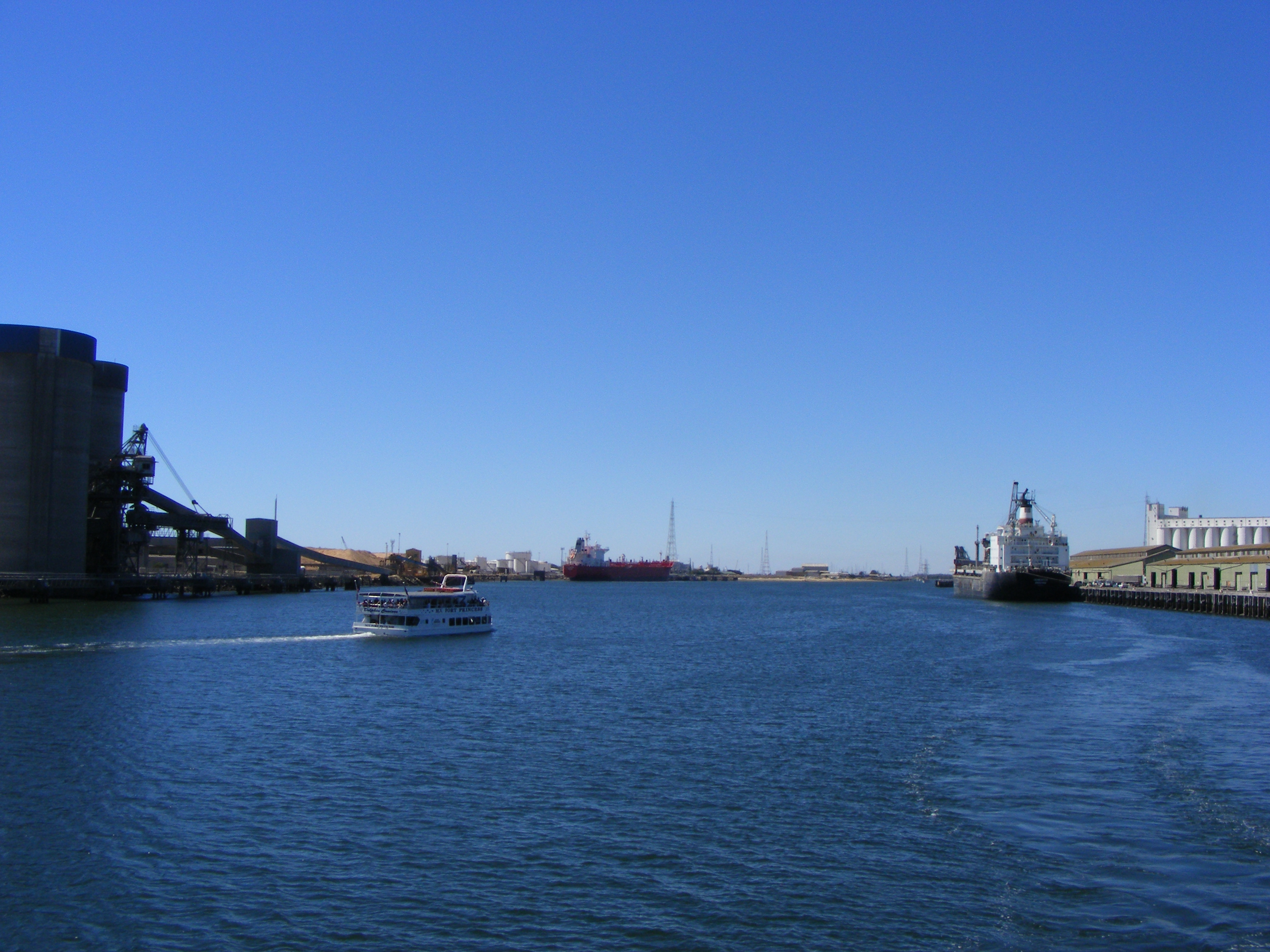 Port River, Port Adelaide, South Australia looking downstream.